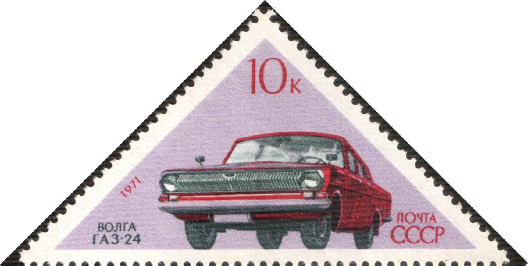 USSR stampː Volga GAZ-24 Automobile. Seriesː Soviet Motor Vehicles